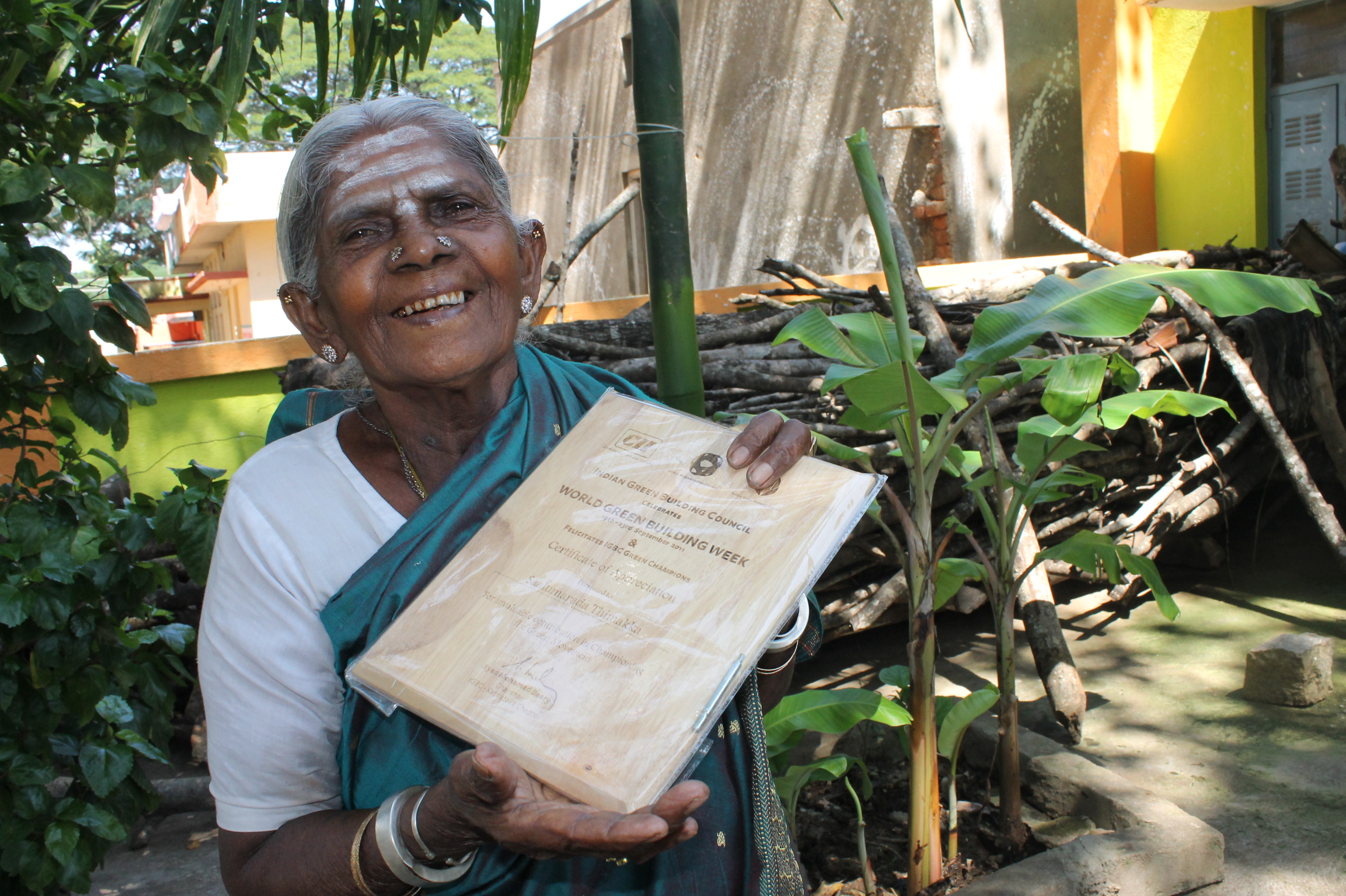 Saalumarada Thimmakka